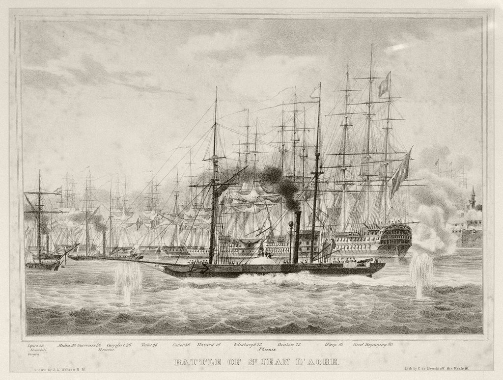 HMS Phoenix at the Bombardment of Acre, also an Austrian warship in the left background and an Ottoman warship in the right background